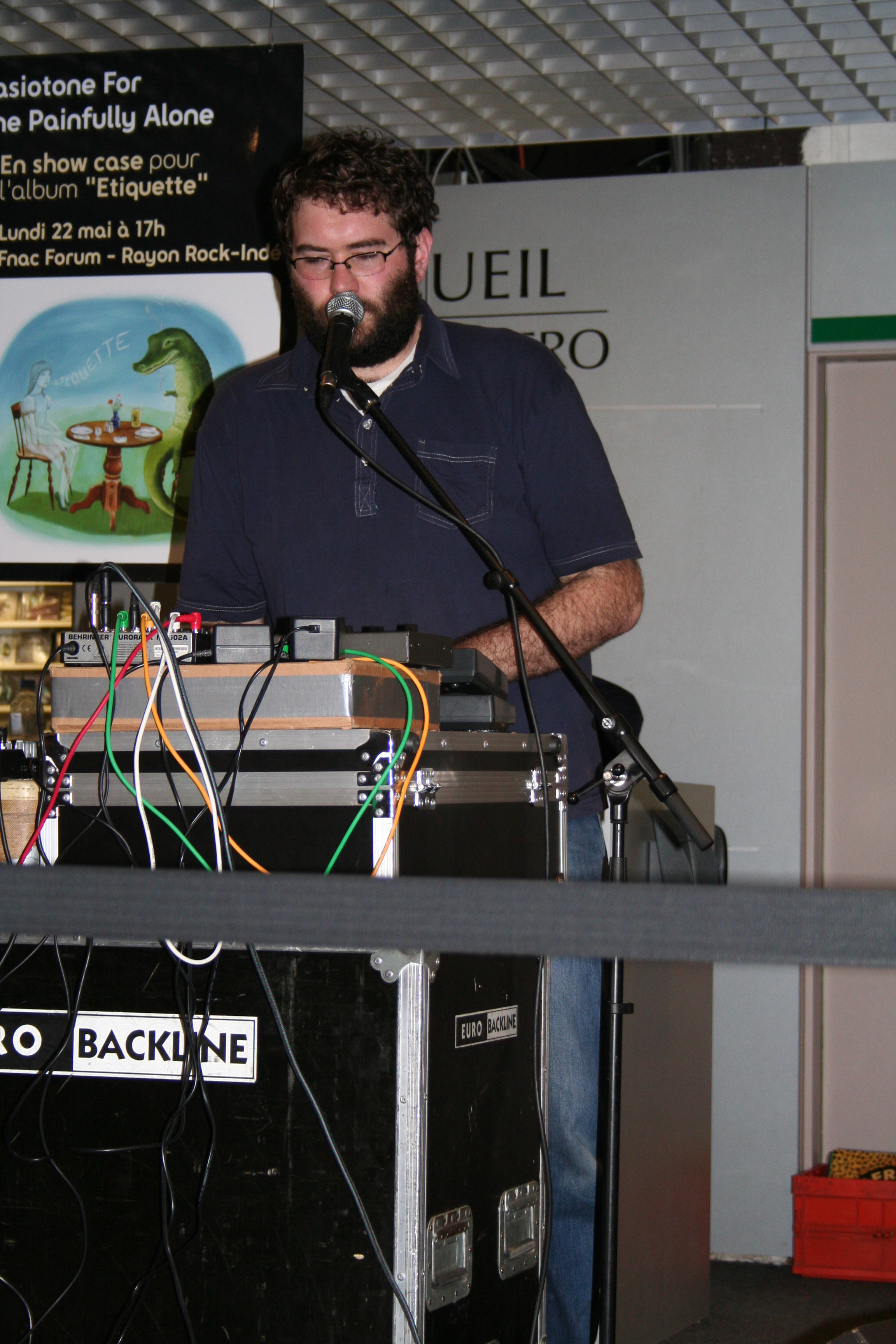 Show-case with Casiotone for the Painfully Alone at Fnac des Halles (Paris, France).